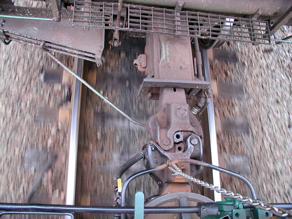 View of a standard ARR Type E coupler doing its job joining SMS Lines S-12 number 301 to a tank car at the Penn Warner Industrial Park in Morrisville, PA.